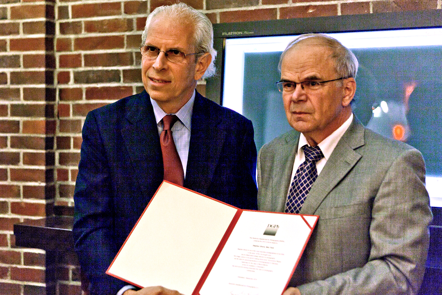 Stephen Shore at NRW-Forum Düsseldorf getting the Kulturpreis of Deutsche Gesellschaft für Photographie (DGPh) together with Prof. Dr. Nickel (Chairman of DGPh)